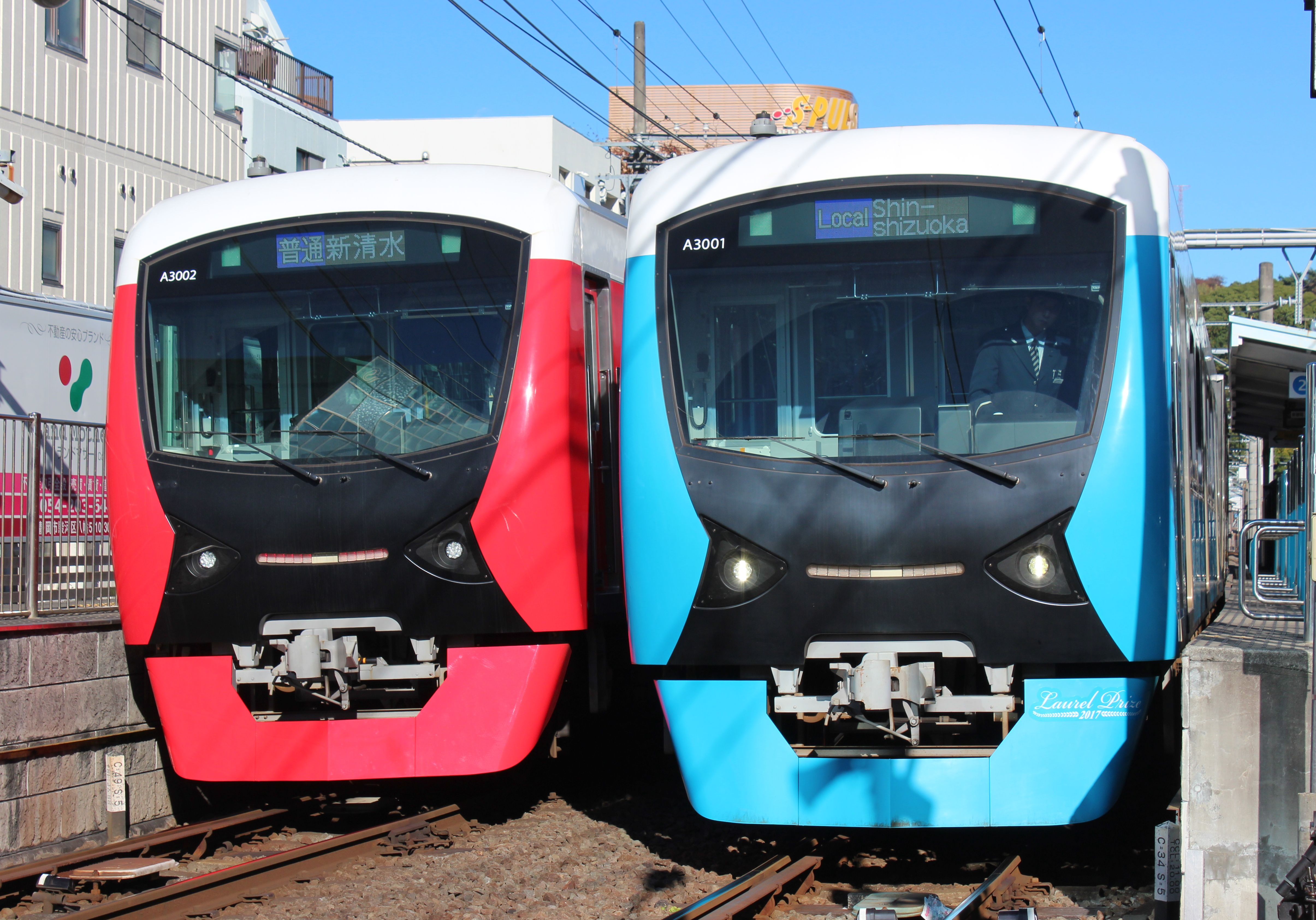 Shizuoka Railway A3000 series EMU sets A3002 (left and A3001 (right) at Hiyoshichō Station in Shizuoka, Japan